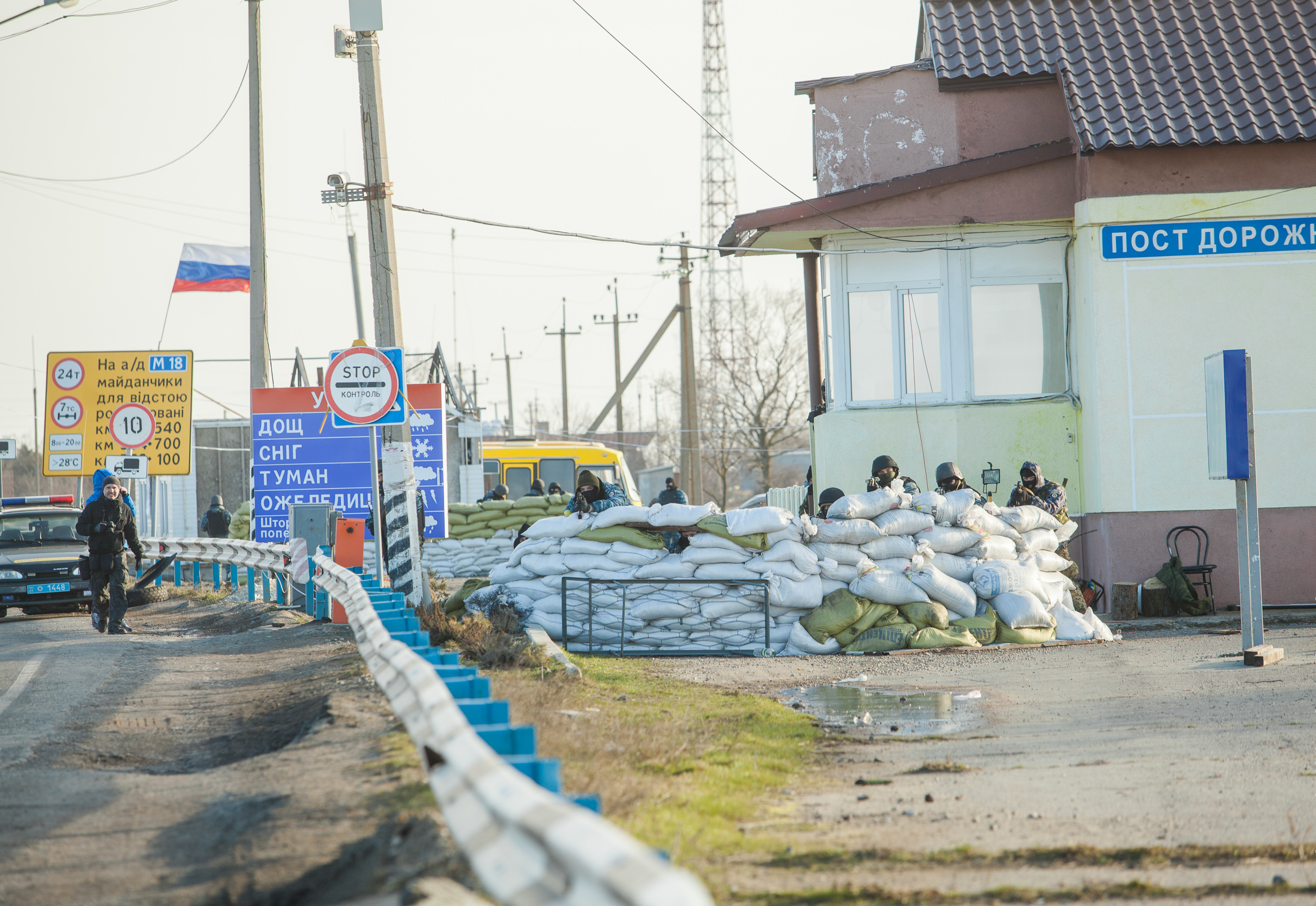 Berkut guards an entrance checkpoint to the Crimea Peninsula, March 10, 2014.